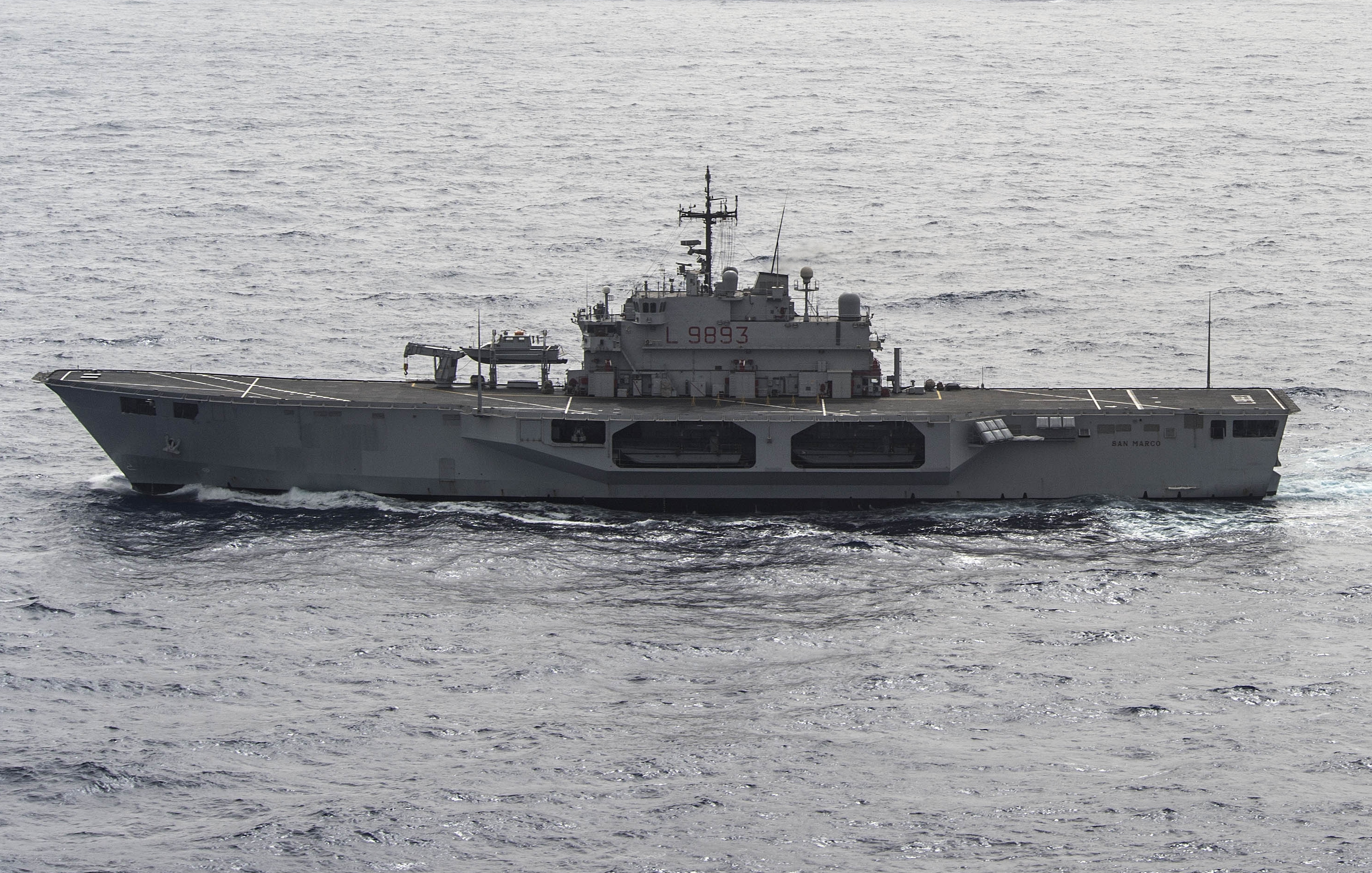 The Italian Marina Militare amphibious transport dock San Marco (L9893) underway in the Mediterranean Sea on 16 June 2016.